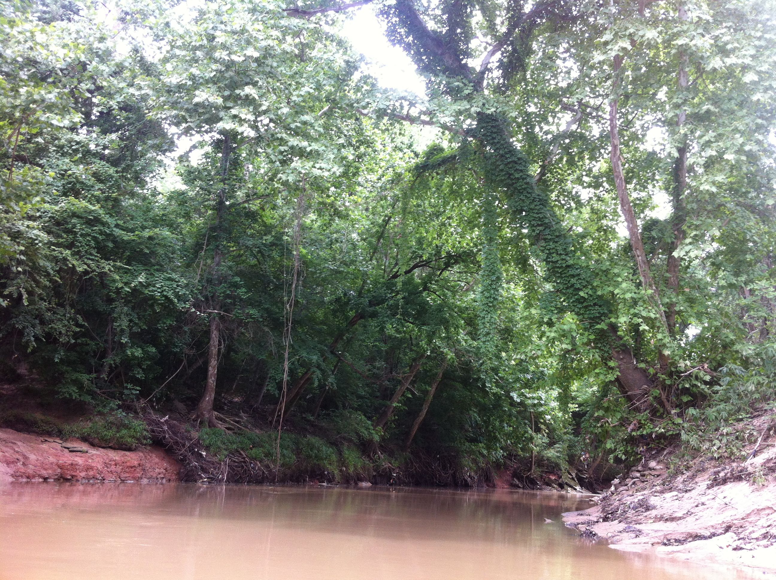 The riparian forest of Buffalo Bayou as it passes by Memorial Park in Houston, Texas, May 2014.